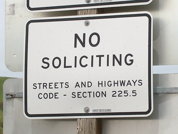 A "No Soliciting" sign at the Camp Roberts Safety Roadside Rest Area on the northbound side of U.S. Route 101 near Bradley, California. Such signs are intended to discourage private entrepreneurs from trying to sell goods and services at government-maintained rest areas along major freeways, which is illegal in most parts of the United States. In most states the only goods available at rest areas are junk food and soft drinks from vending machines, and the only commercial service offered is a pay phone. Photographed on April 2, en:2006 by user Coolcaesar.